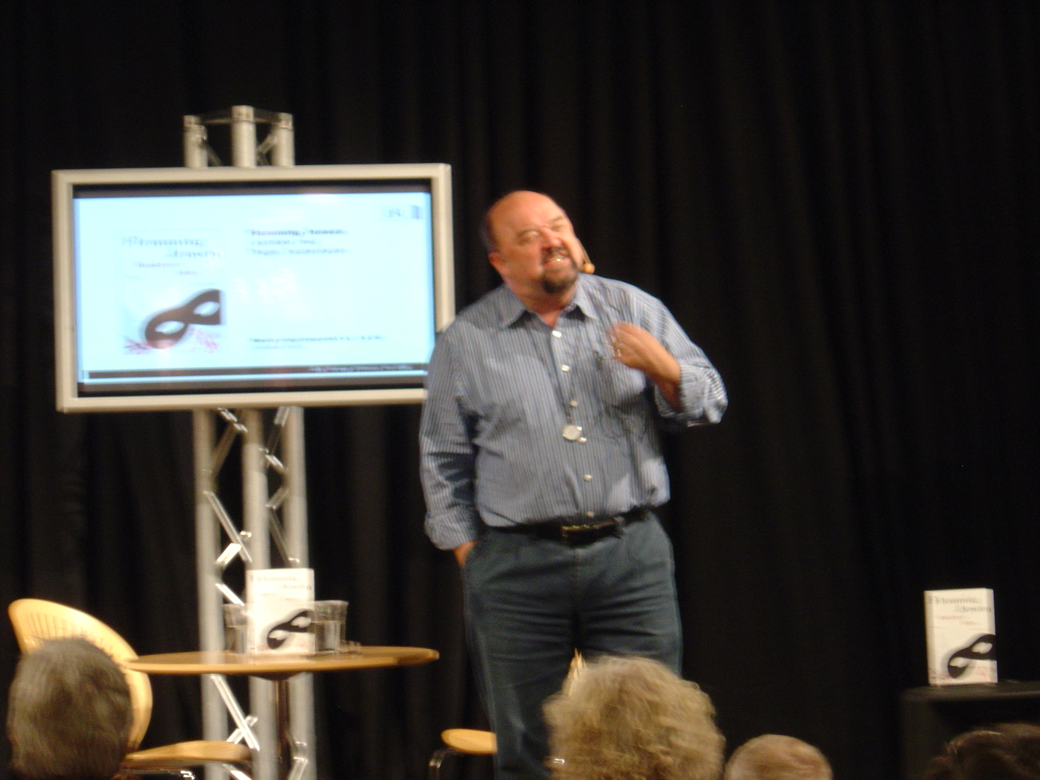 Flemming Jensen - a danish actor, writer and director on 16 November 2008 attending the annual Danish book fair, BogForum (November 14-16, 2008), in Forum Copenhagen.